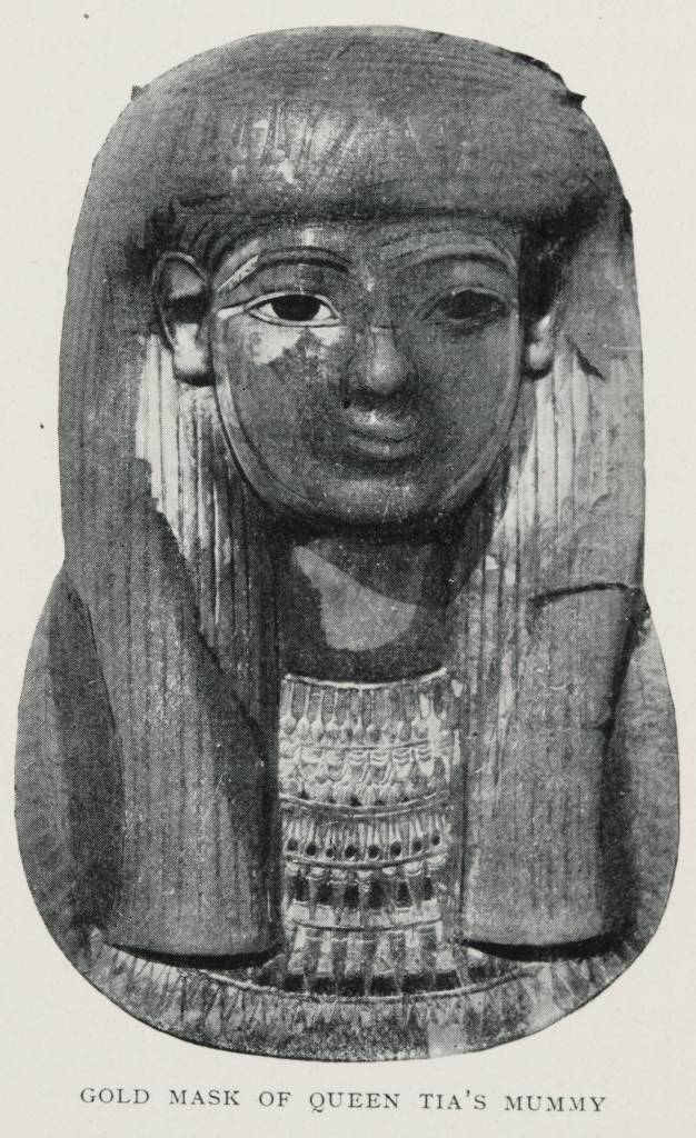 A gold mask that accompanied Queen Tia's mummy. - This is Lady Tuya, mother of Queen Tiye.